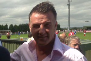 Photo taken by myself following a charity match between Leicester City and Nottingham Forest.